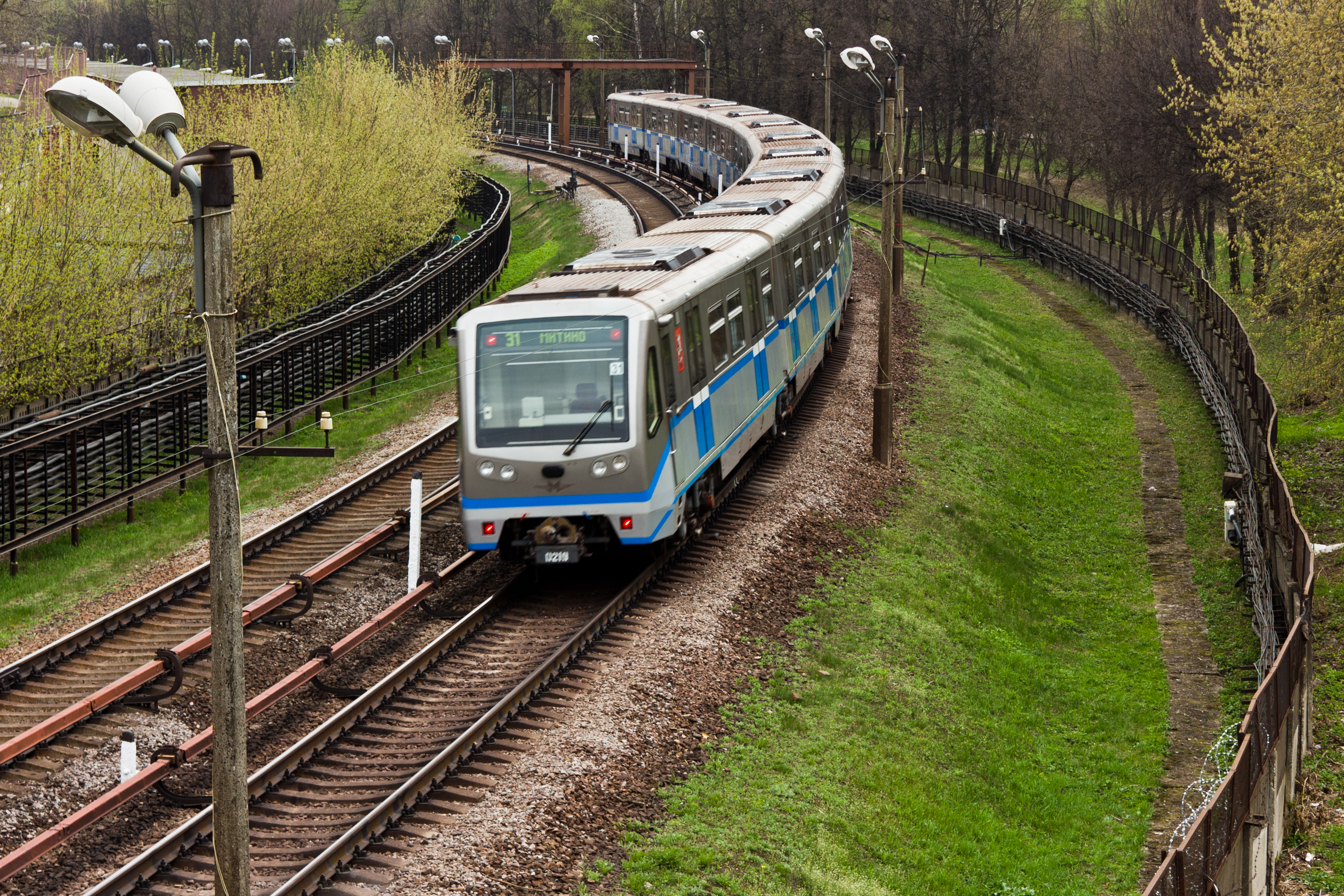 Arbatsko-Pokrovskaya Line near Kuntsevskaya Moscow Metro station.